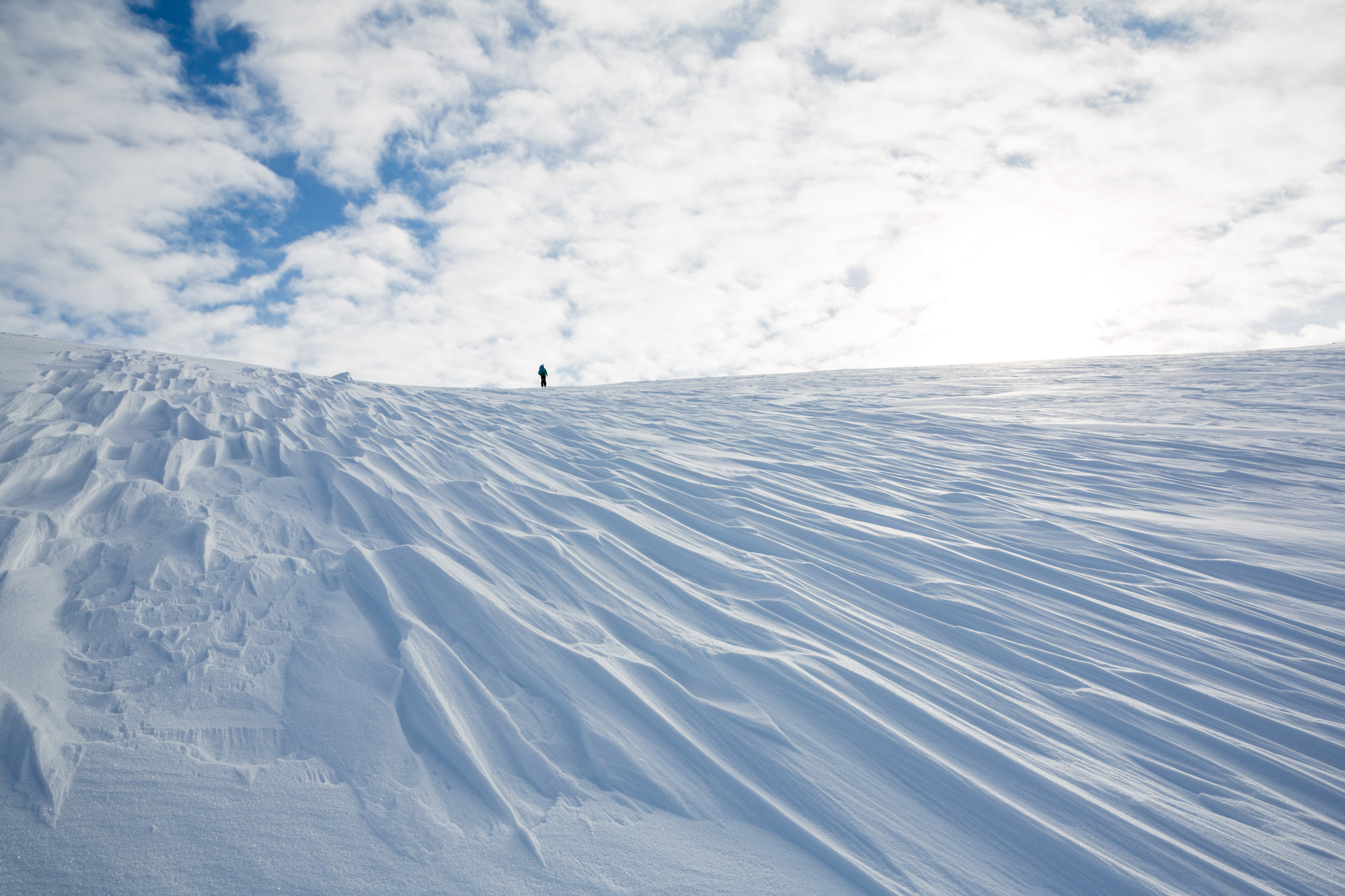 Sastrugi in the Dovre mountain area, Norway